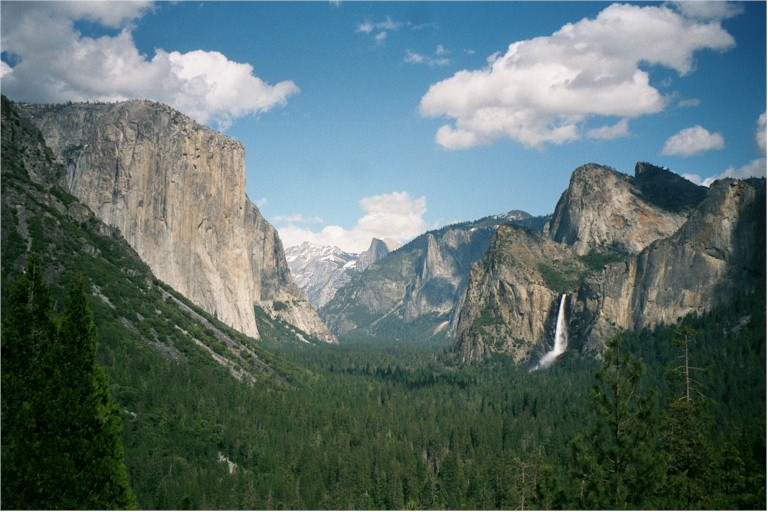 This is an image of Tunnel View, Yosemite, taken on 4/14/2002 by Claude A. Muncey.